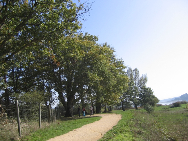 This photograph was taken on 2006-10-28 near the Uribarri-Ganboa reservoir in the Araba province of the Basque Country (Europe), using a Canon PowerShot S50 camera. The original size was 2592x1944 pixels, it was reduced to the present size (648x486 pixels) using the IrfanView freeware program. This tree is the same one that appears on the Quercus_robur_20061028_1259_tree_in_Araba.jpg image.